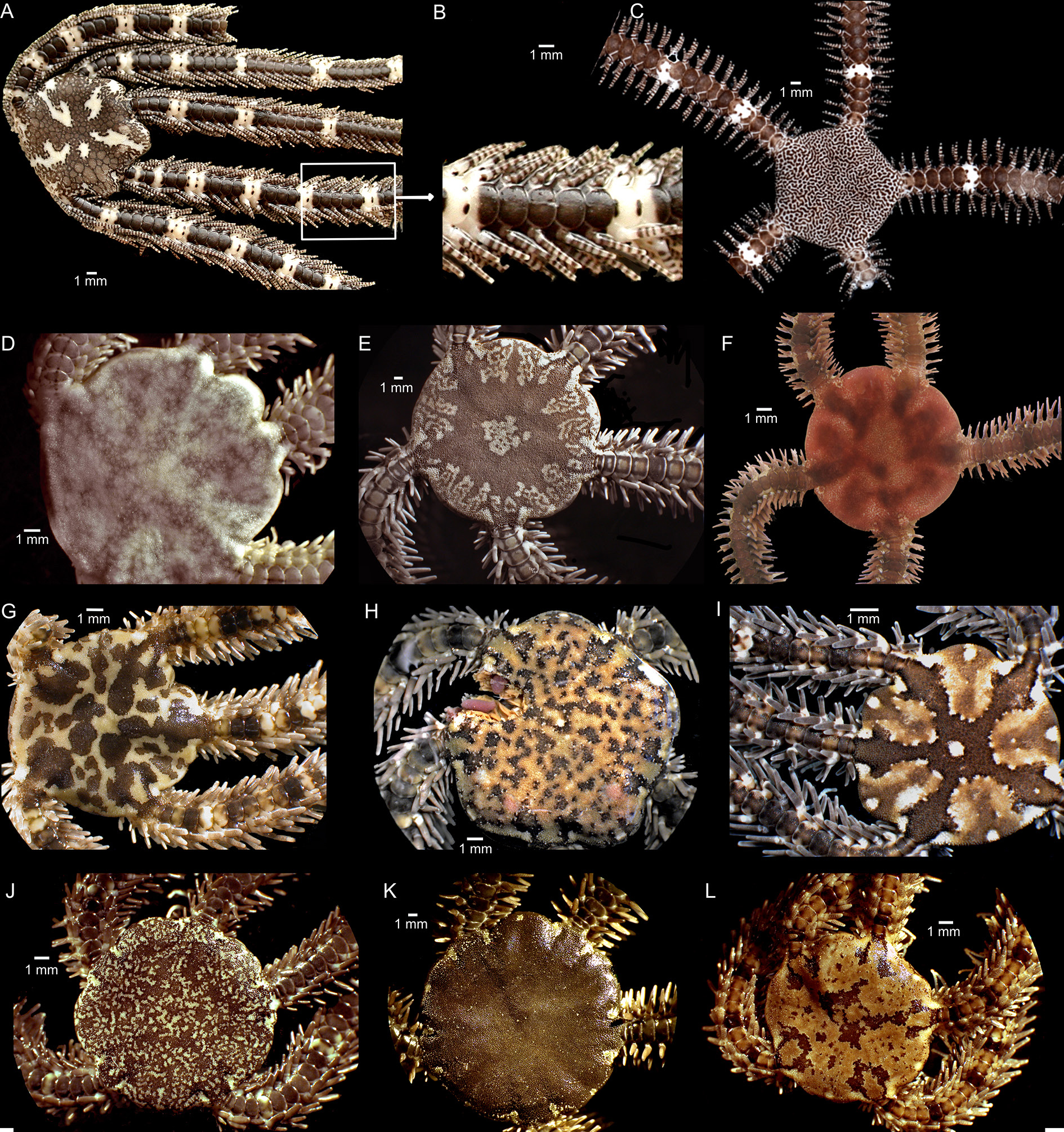 Fig. 2. Colour variations in species of Ophiocoma (Breviturma) subgen. nov. A-C. Ophiocoma doederleini Rowe & Pawson, 1977. A. Reticulated specimen (UF5318). B. Close-up of annulated arm spines. C. Densely reticulated specimen (UF6518). D. Ophiocoma brevipes Peters, 1851 (SMNH-133230). E-F. Ophiocoma dentata Müller & Troschel, 1842. E. Variegated specimen (SMNH-133232). F. Uniformly reddish brown specimen (URUN2009-11047). G-L. Ophiocoma krohi sp. nov. paratypes. G. With large patches (SMNH-Type-8533). H. Small irregular spots (MNHN-IE-4302). I. Star-shaped radiating pattern (SMNH-Type-8531). J. Densely mottled (MNHN-IE-4301). K. Uniformly dark brown (SMNH-Type-8536). L. Light brown, sparsely mottled (UF13938). For institution codes see main text.